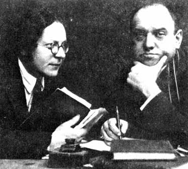 Alter Katsizne leyent for zayn drame "Dukus" farn kinstler Avrom Morevski